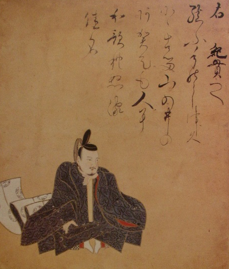 Picture from a serie of the 36 immortal poets